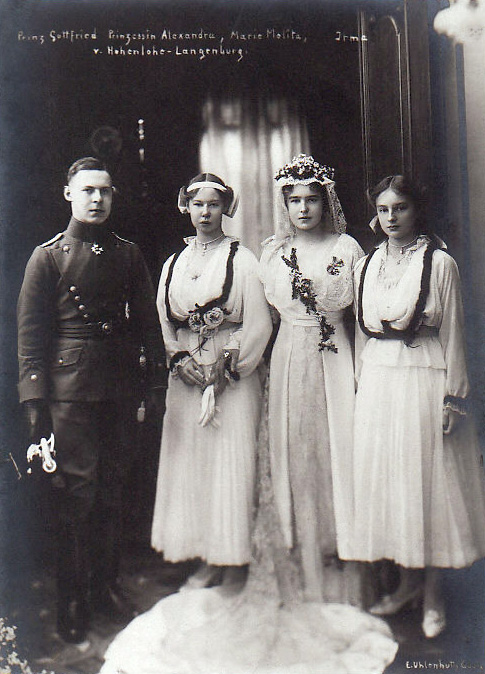 Children of Prince Ernst II and Princess Alexandra of Hohenlohe-Langenburg, Irma, Alexandra, Marie und Gottfried of Hohenlohe-Langenburg on occasion of Marie's marriage with Hereditary Prince Friedrich of Holstein-Glücksburg